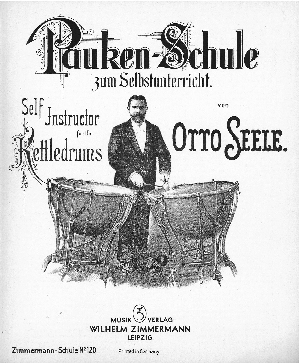 Front cover of the "Self Instructor for Kettledrums" by Otto Seele, published by Zimmermann Verlag, Leipzig ca. 1900. The person shown is probably Otto Seele. The image was kindly provided by the Zimmermann Verlag.